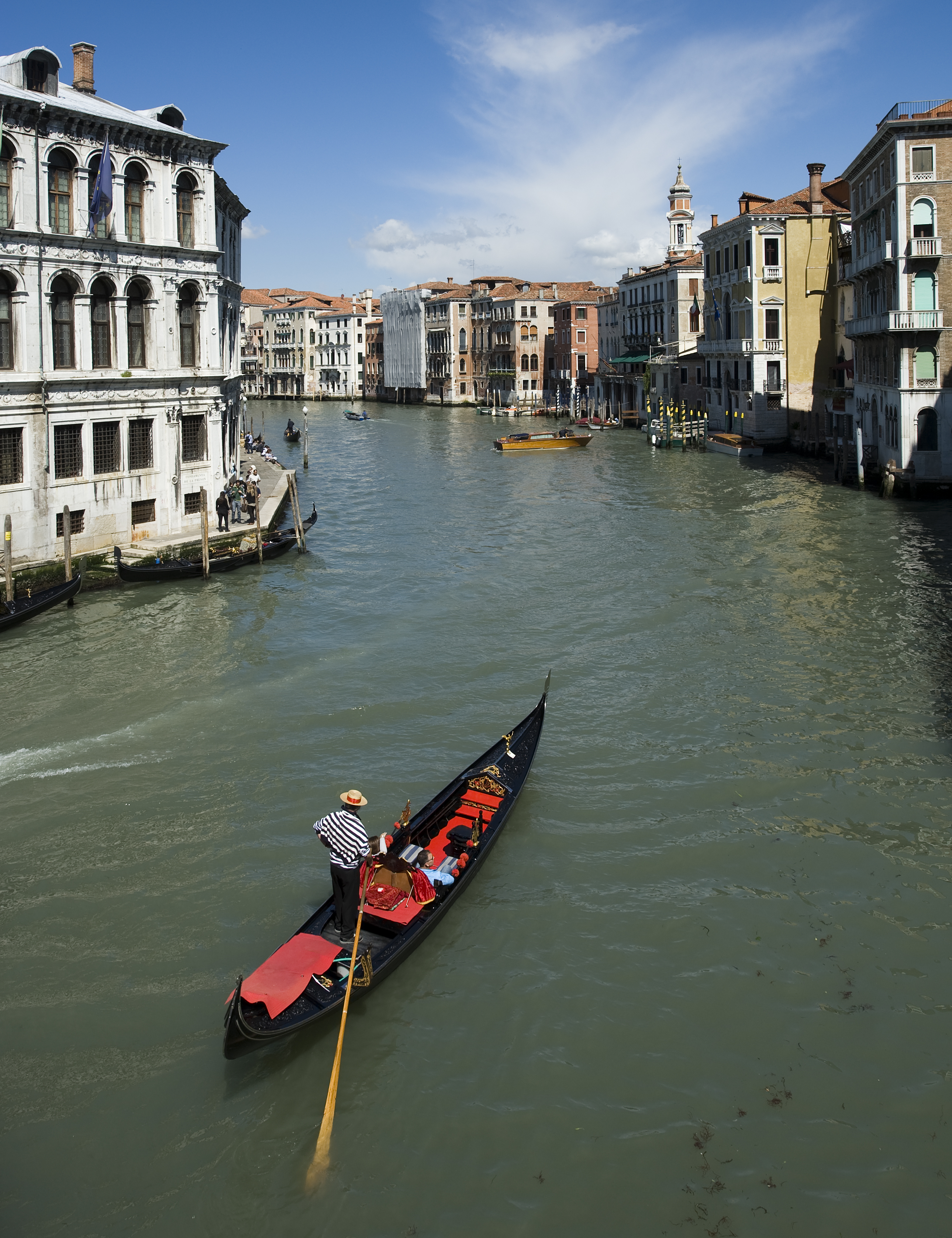 Taken from the Rialto Bridge, a lone gondolier takes his gondola up the Grand Canal.